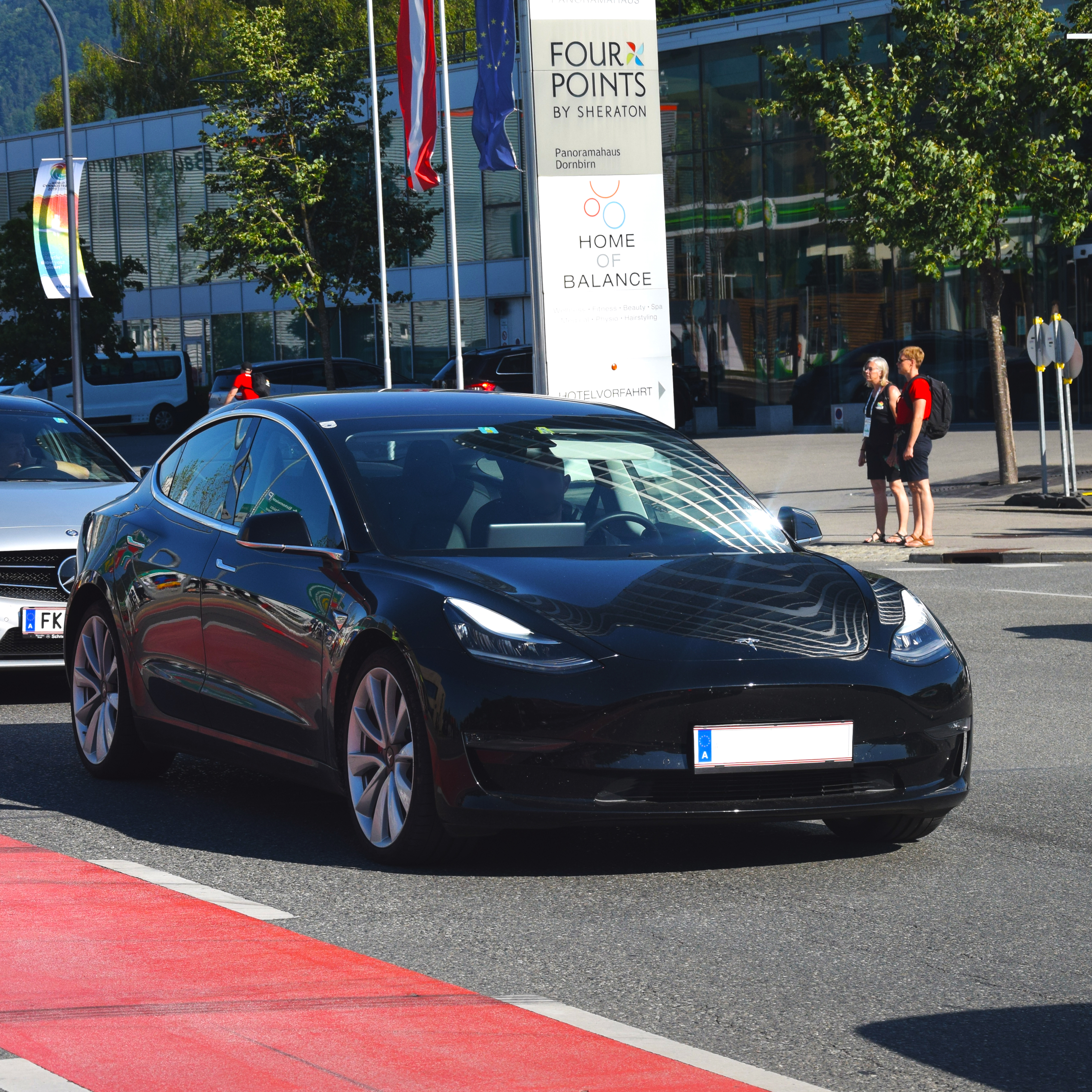 This is a Tesla model 3 in Dornbirn, Austria. It was captured on July 10, 2019 during world gymnaestrada 2019.